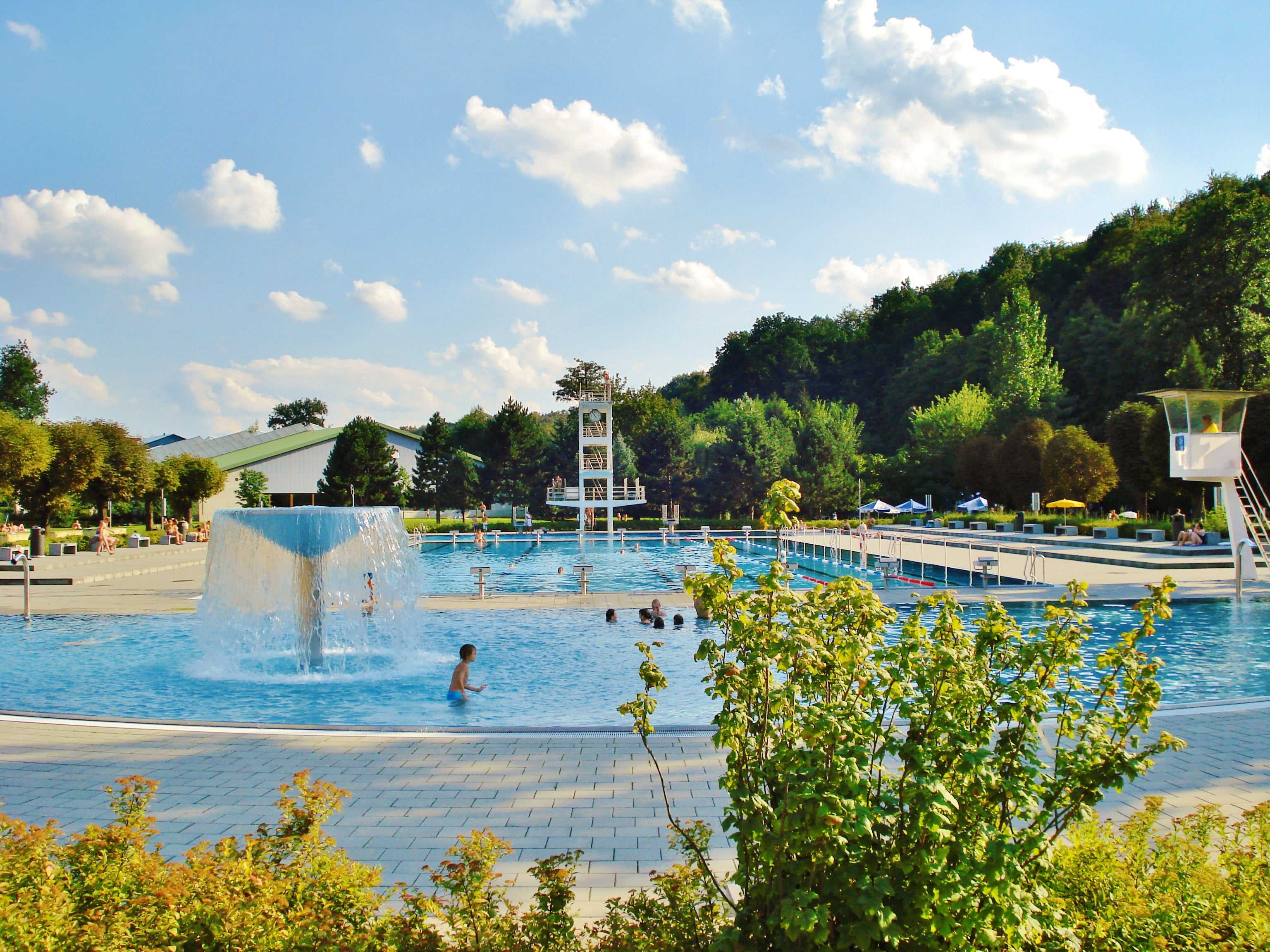 The "Geibeltbad" in Pirna(Saxony).